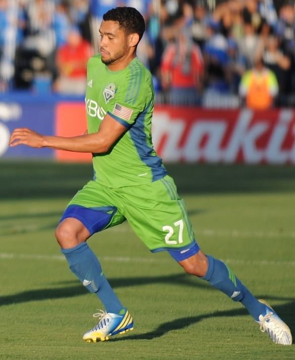 July 13, 2013 - Santa Clara, CA. The San Jose Earthquakes defeated the visiting Seattle Sounders FC 1-0. Photo by Joe Nuxoll / .